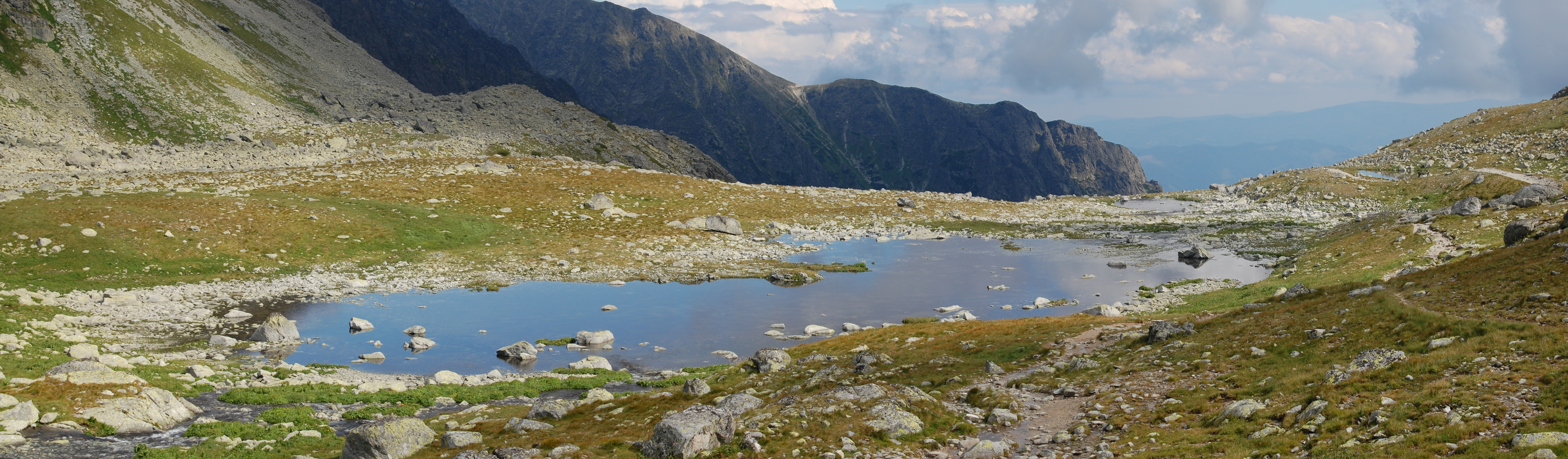 Hincove oká lake near Veľké Hincovo pleso in the Slovakian Tatras.